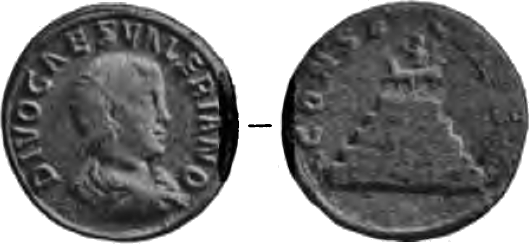 image from "Rivista italiana di numismatica 1890.djvu p. 346 (../363) DIVO CAES VALERIANO testa giovanile dx (Valerianus Caesar) CONSECRATIO